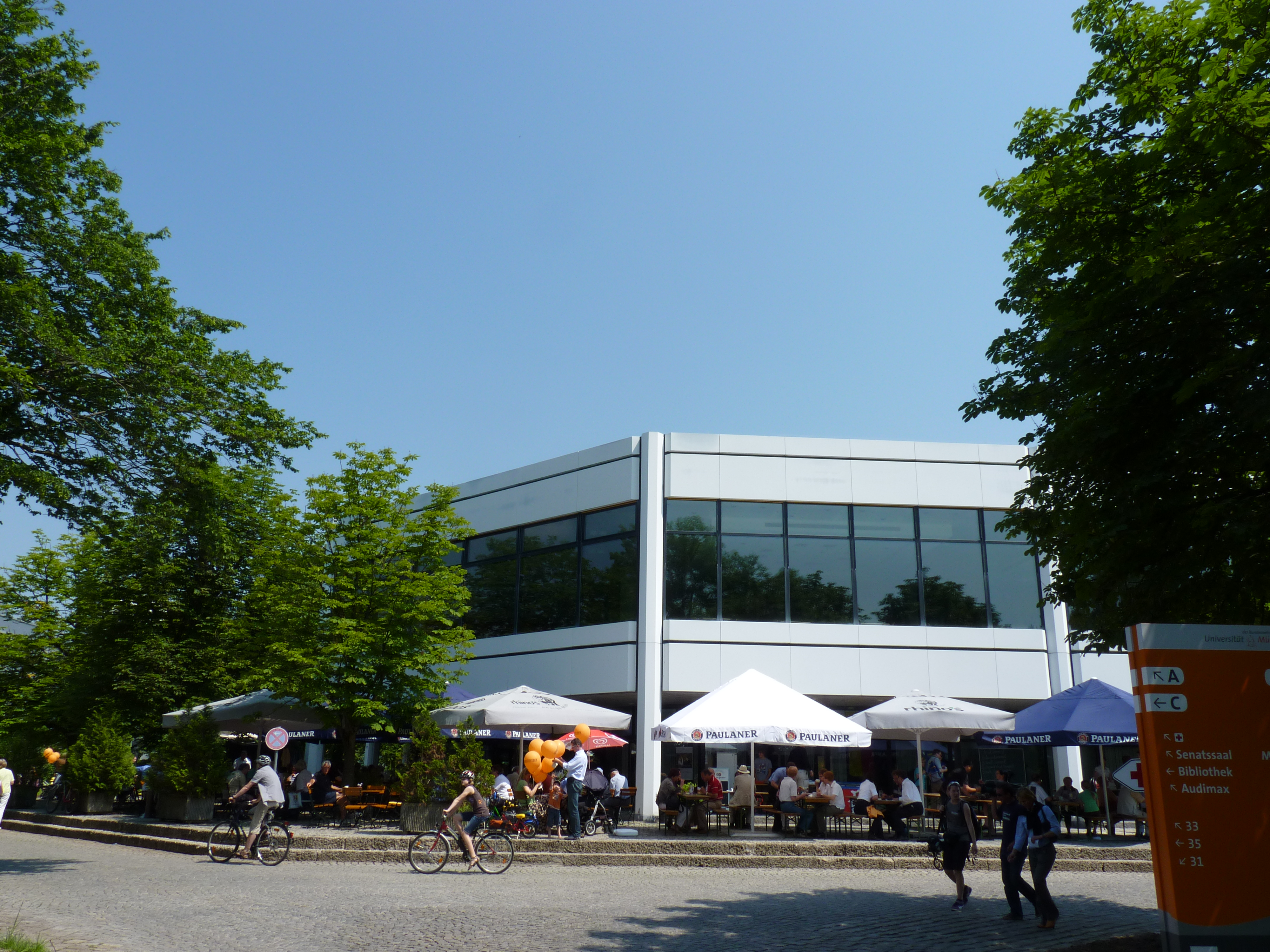 Bundeswehr University of Munich, cafeteria